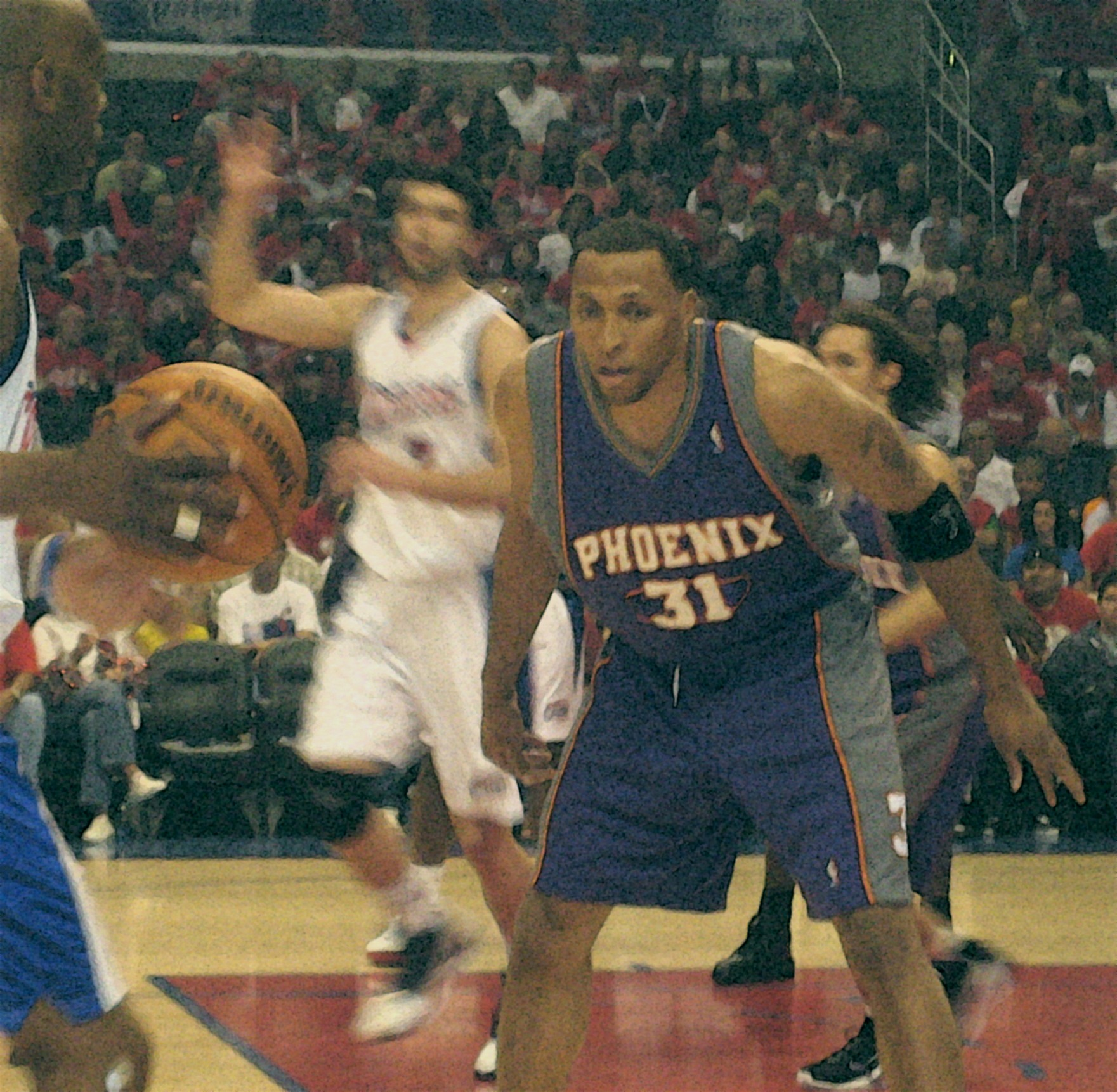 Shawn Marion focuses on defending Sam Cassell. This was taken during Game 4 of the 2006 NBA Western Conference Semifinals at the Staple Center.